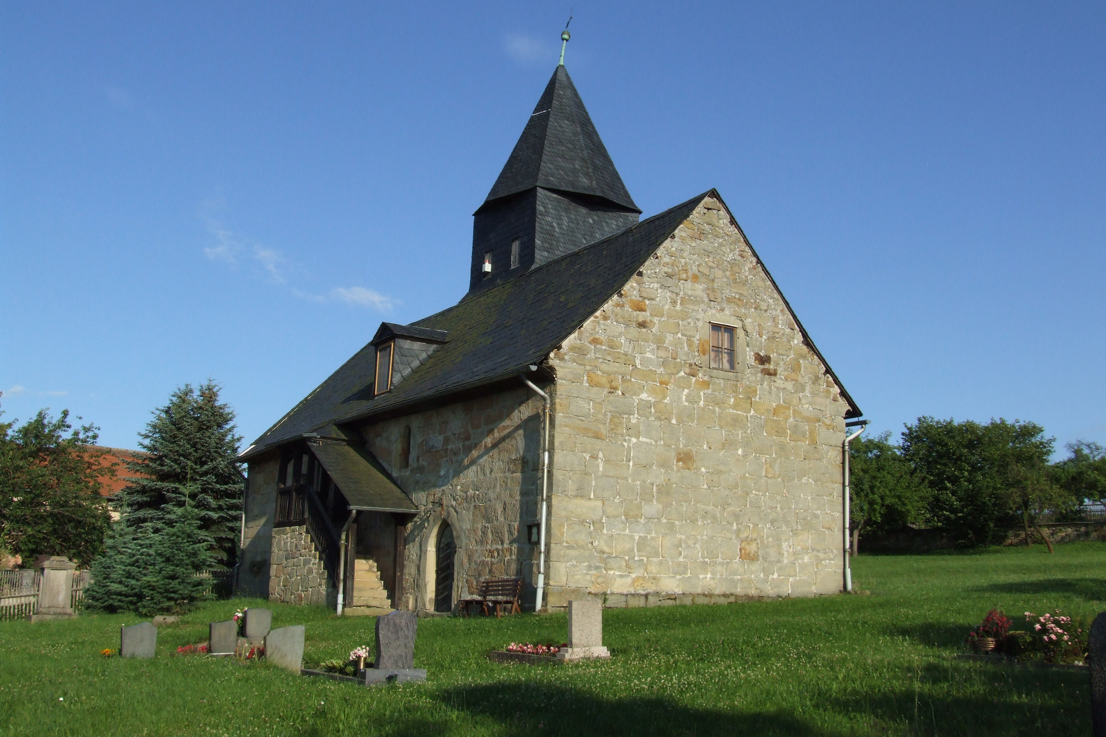 Church Teichweiden